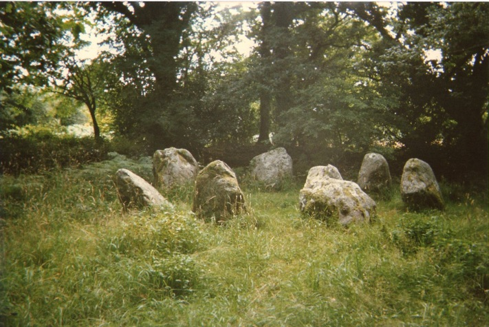 Stone Circle of Lissivigeen, near Killarney, Ireland